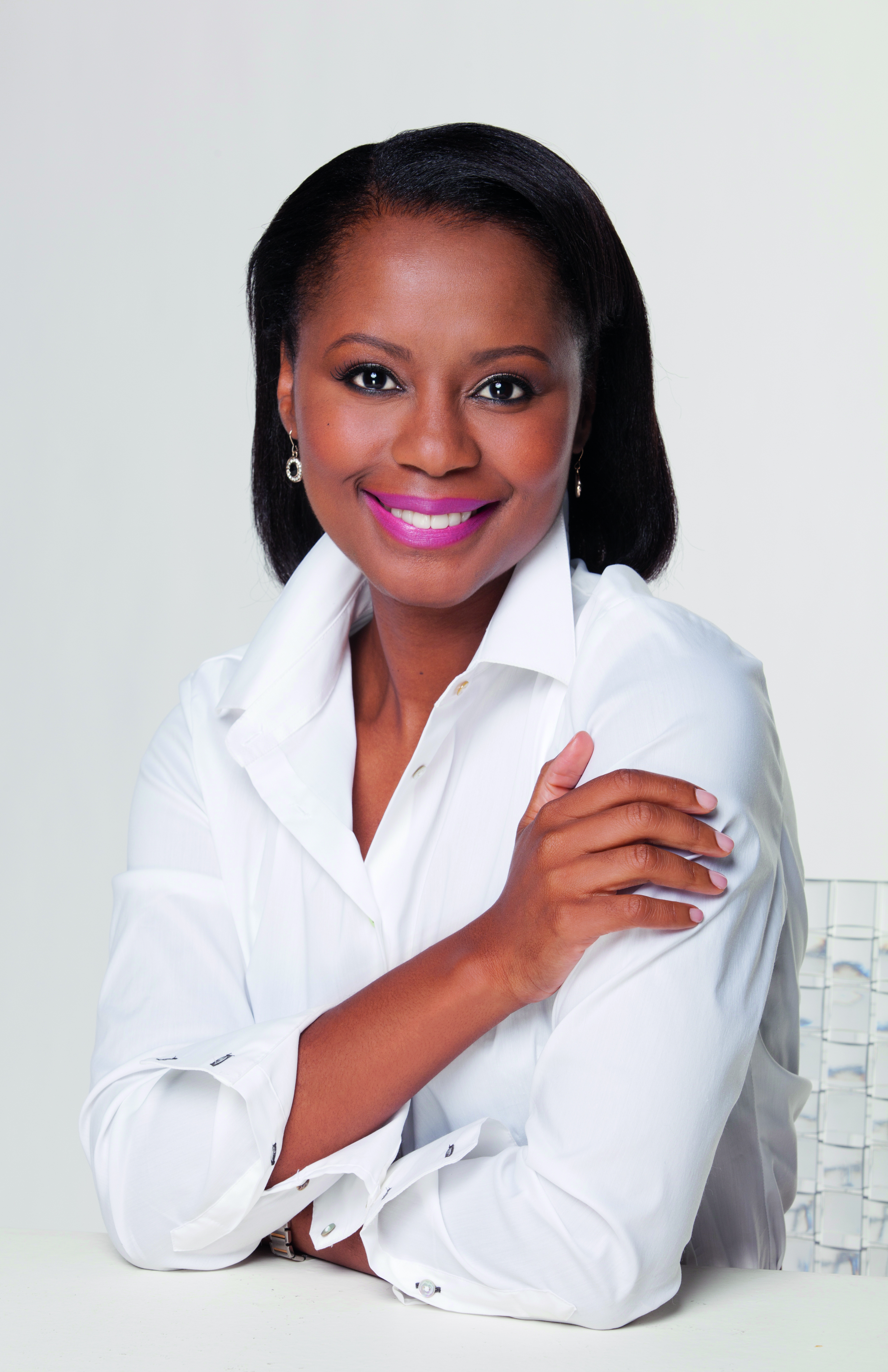 Founder & CEO of Ndalo Media